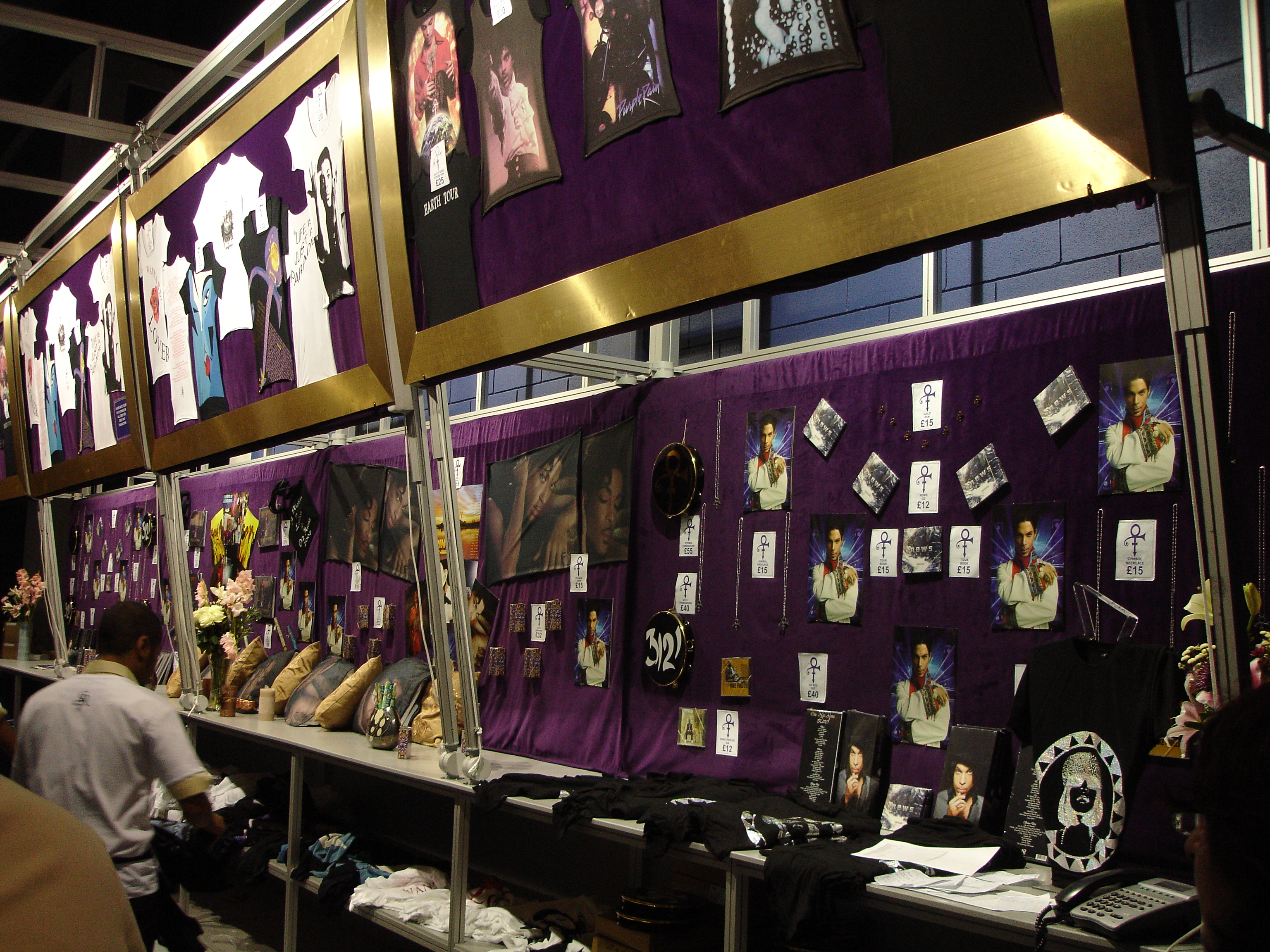 Prince merchadising store, Earth Tour (21 nights in London 2007), O2, London (UK)